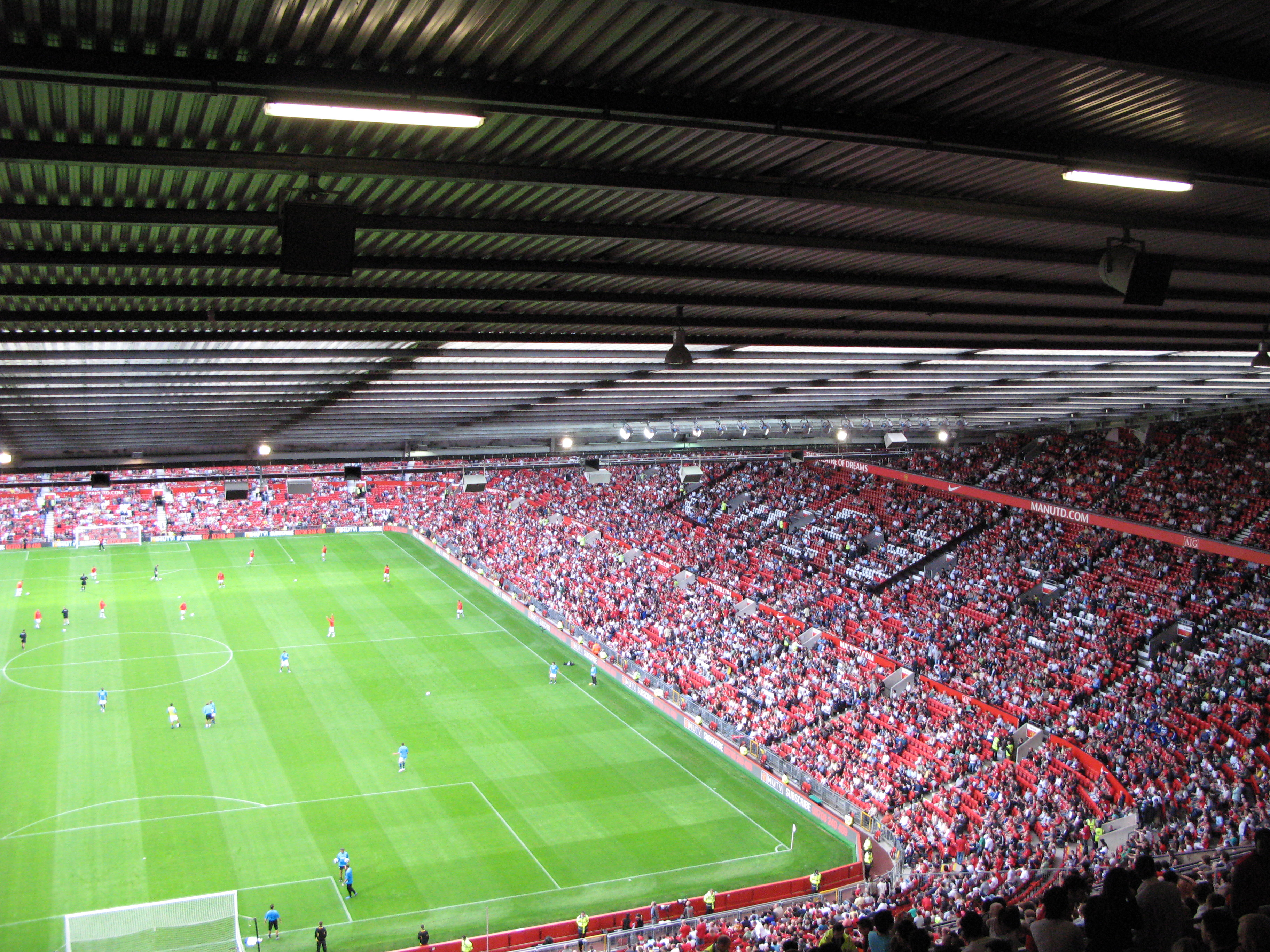 Old Trafford 1/08/07 Pre Season Friendly v Inter Milan